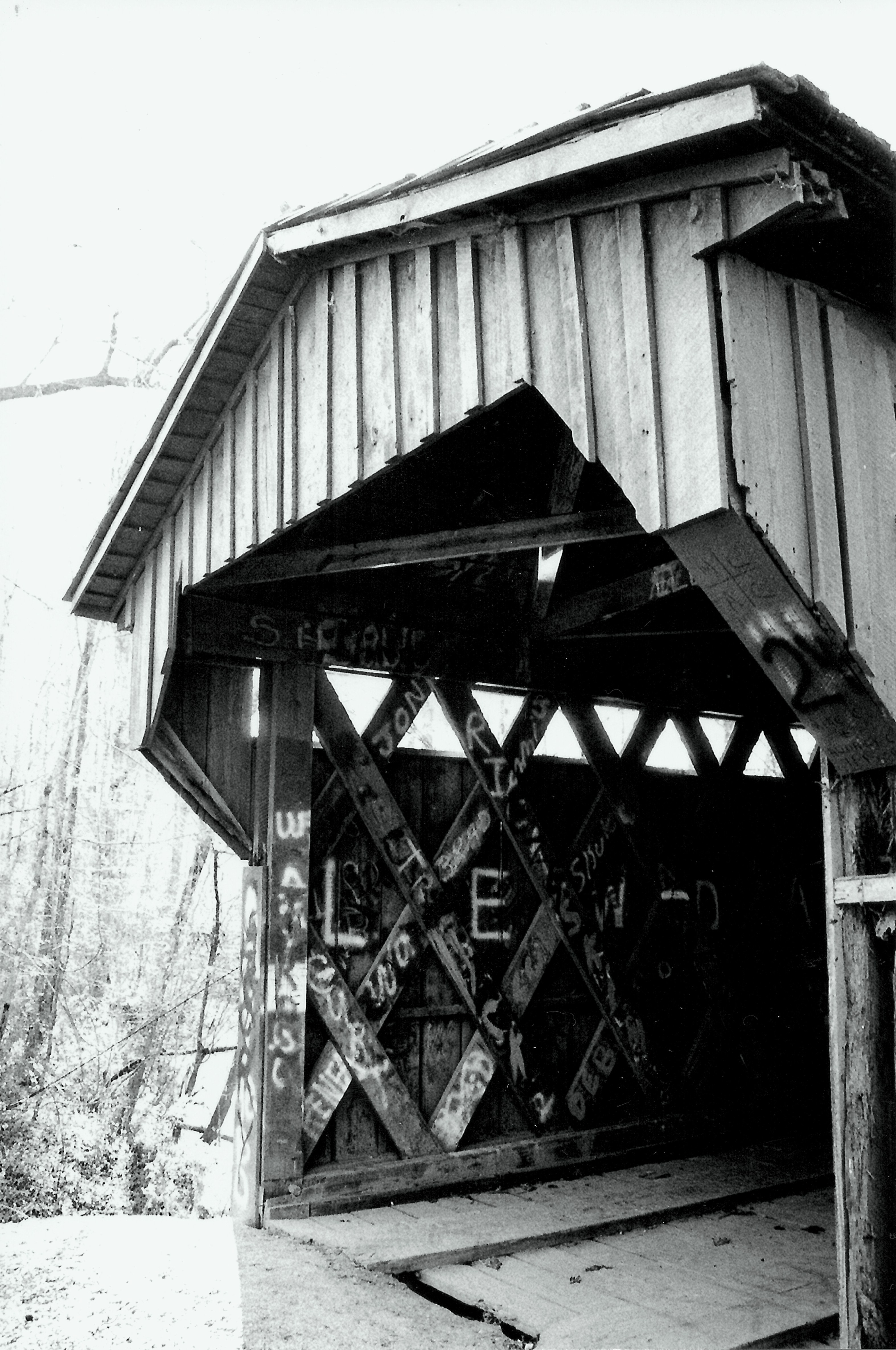 This is a picture of the Salem-Shotwell covered bridge in Salem, AL as it appeared in 2003 (before it was destroyed by a falling tree and rebuilt in a park in Opelika, AL).